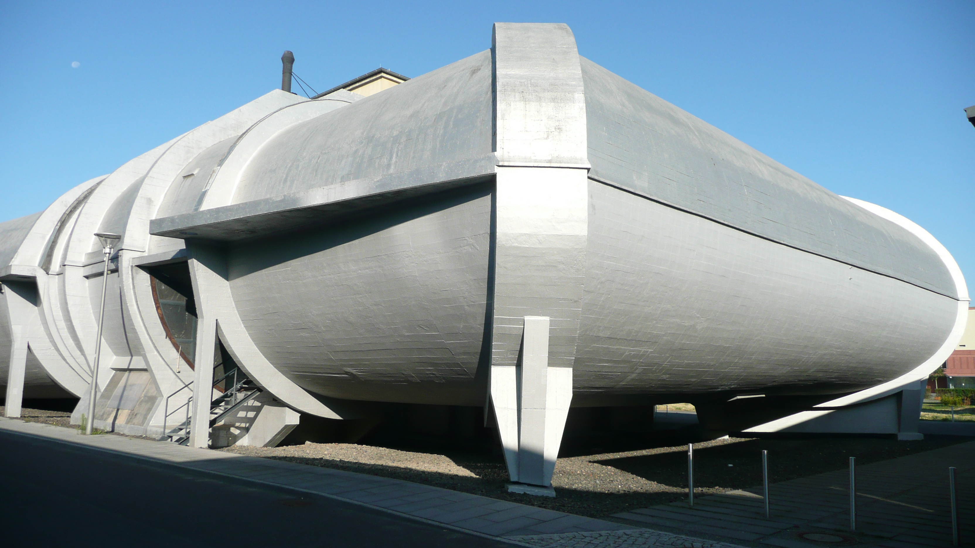 Wind tunnel - Technical monument in the Technology Park WISTA in Berlin-Adlershof